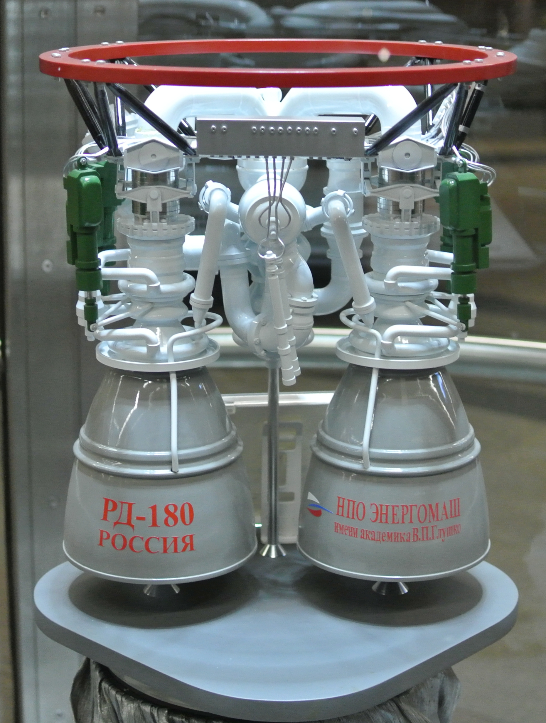 RD-180 scale model